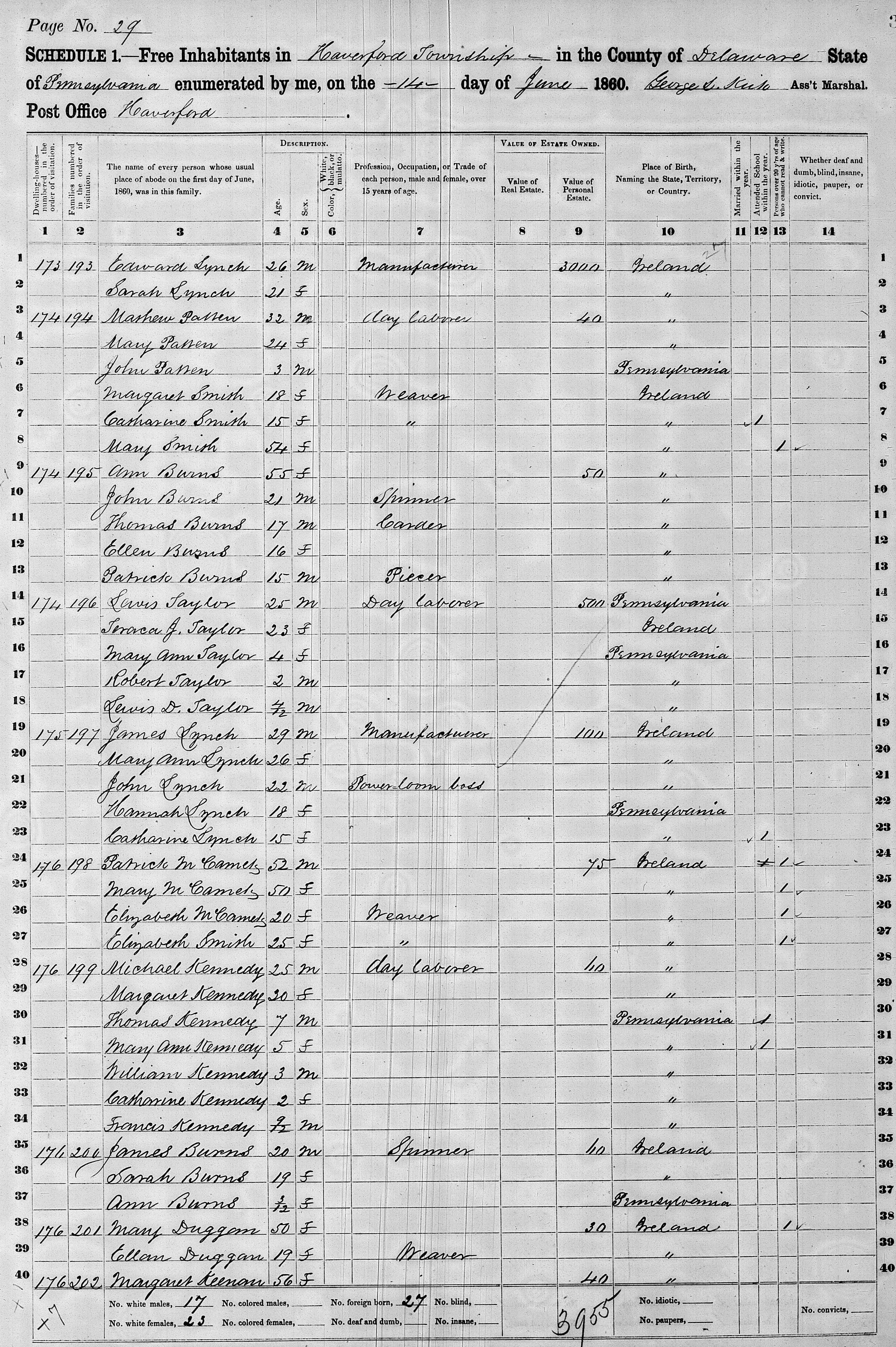 1860 Census